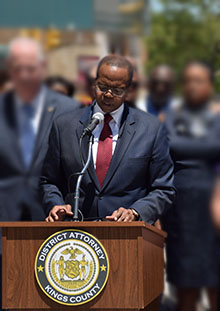 Brooklyn DA Ken Thompson